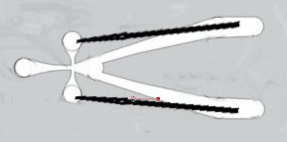 Fluidic Oscillator